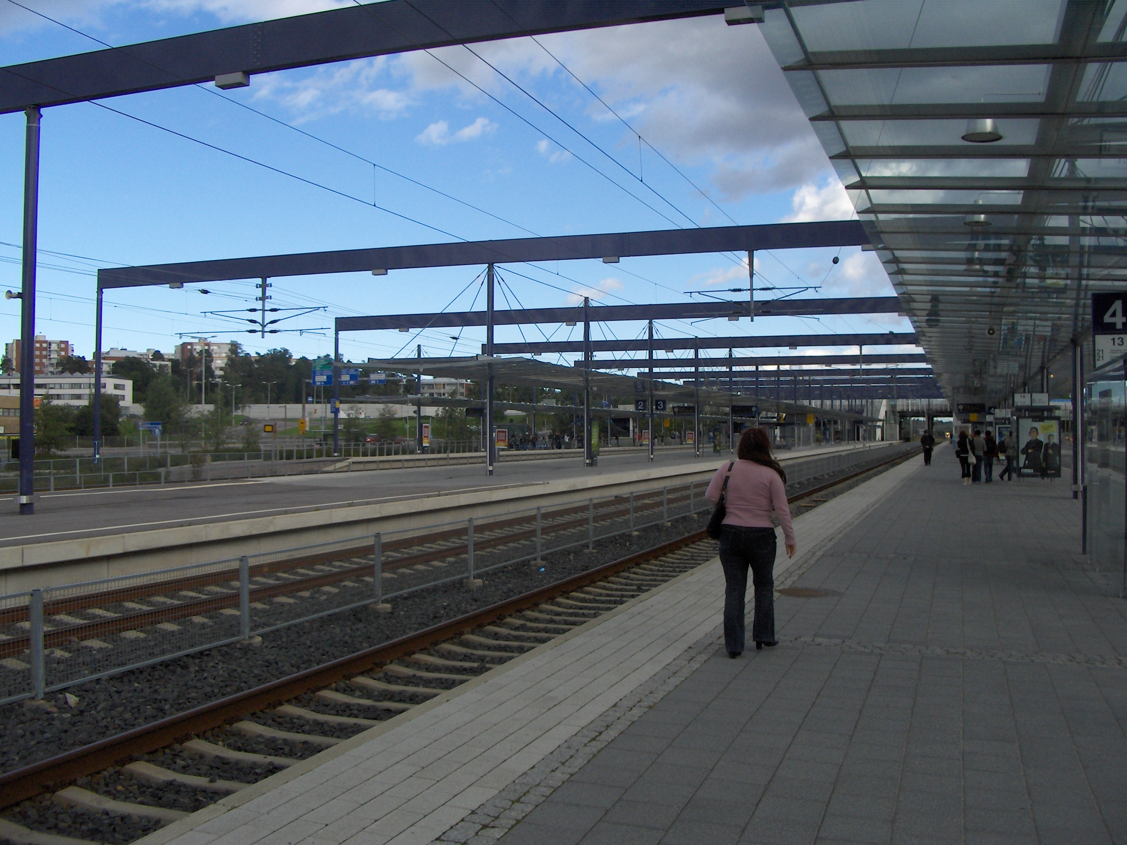 Leppävaara railway station in Espoo, Finland.